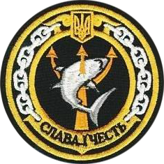 SSI of the 801st Anti-diversionary Detachment